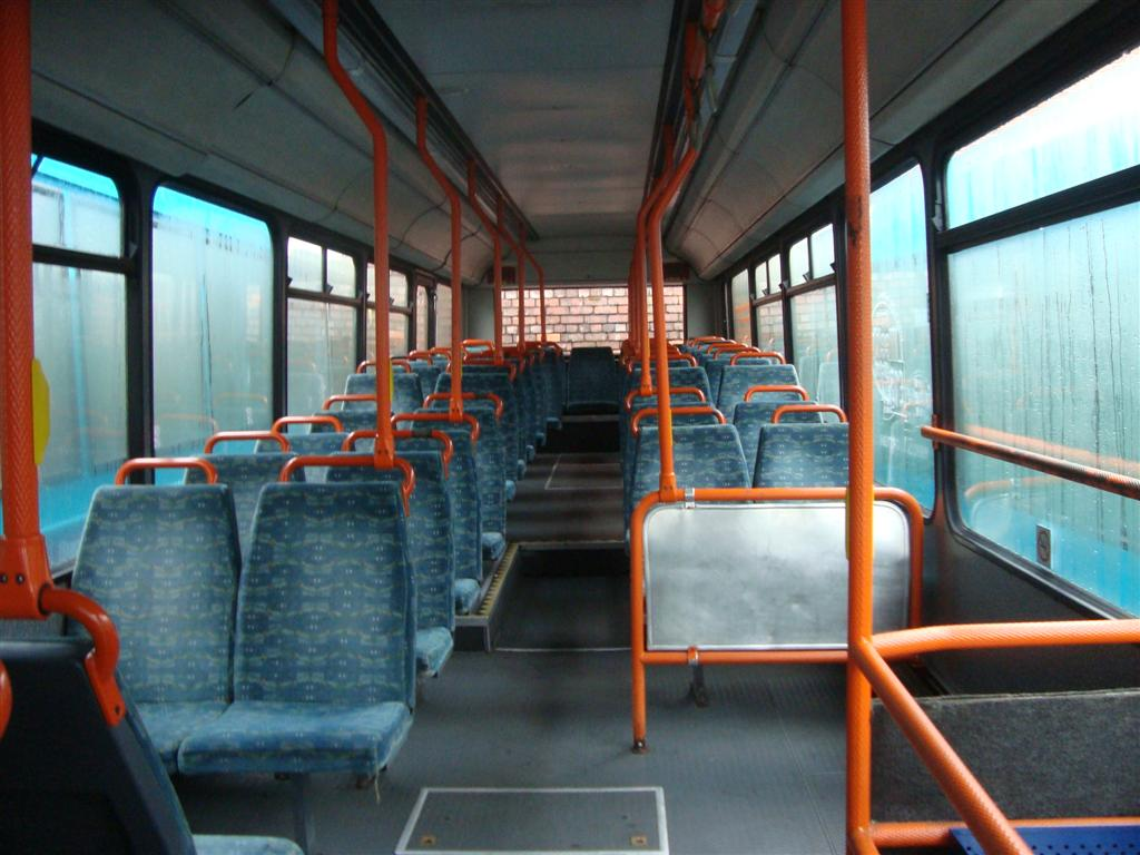 Volvo B10B Wright Endurance Interior